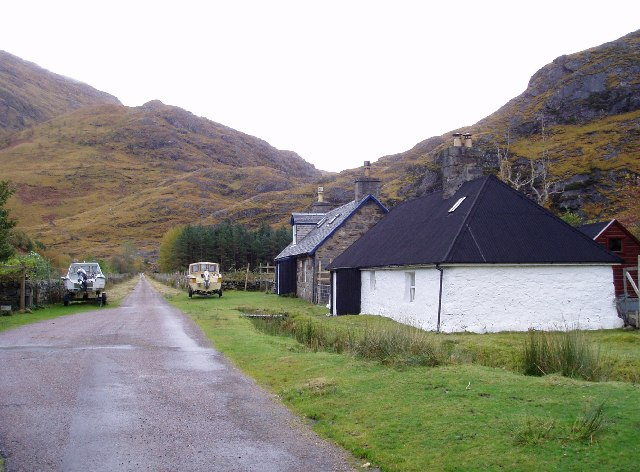 Kinloch Hourn. Isolated farmhouse at the end of a 28-mile cul-de-sac!!